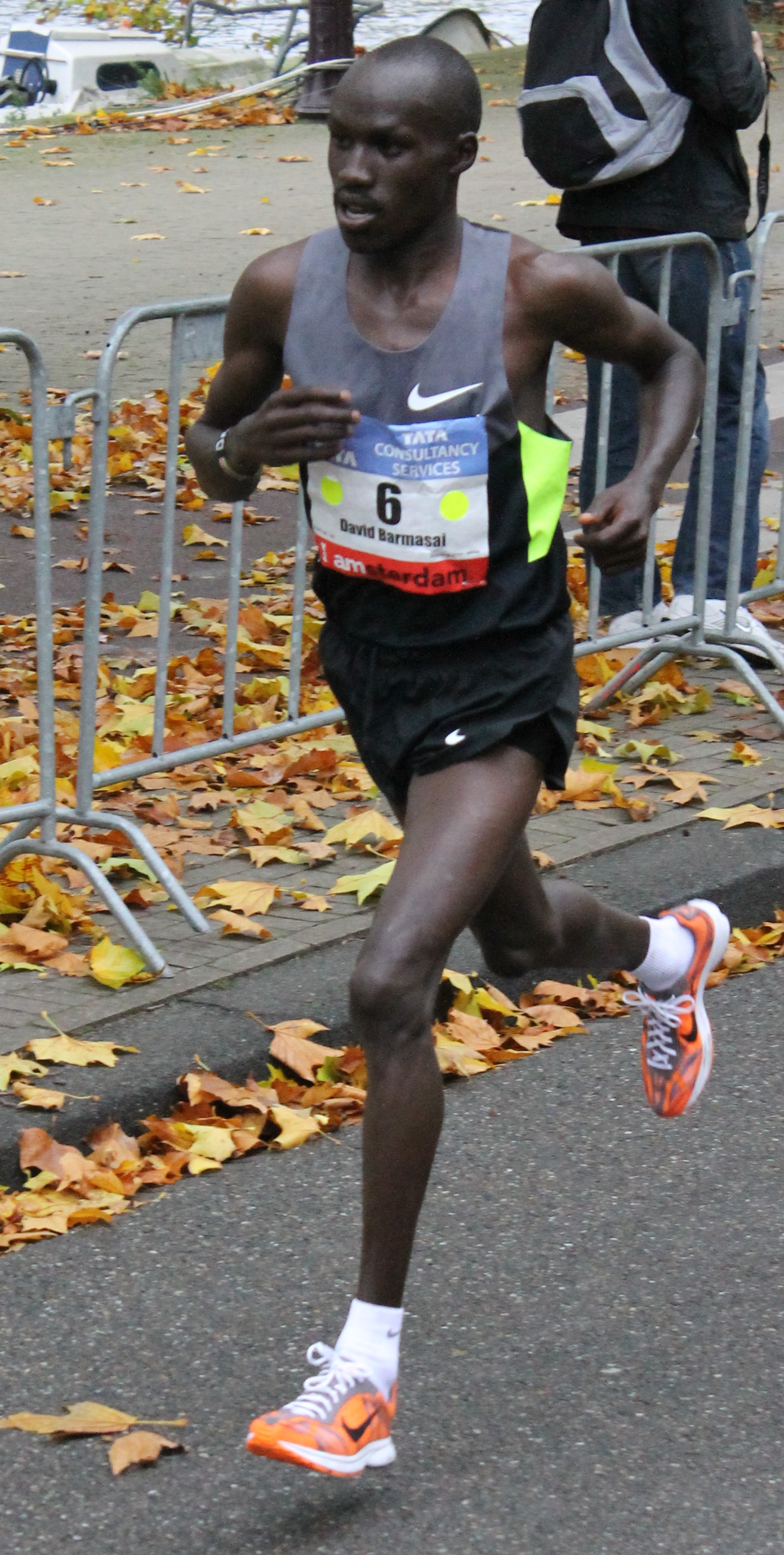 David Barmasai Tumo (KEN) at the 2012 Amsterdam Marathon